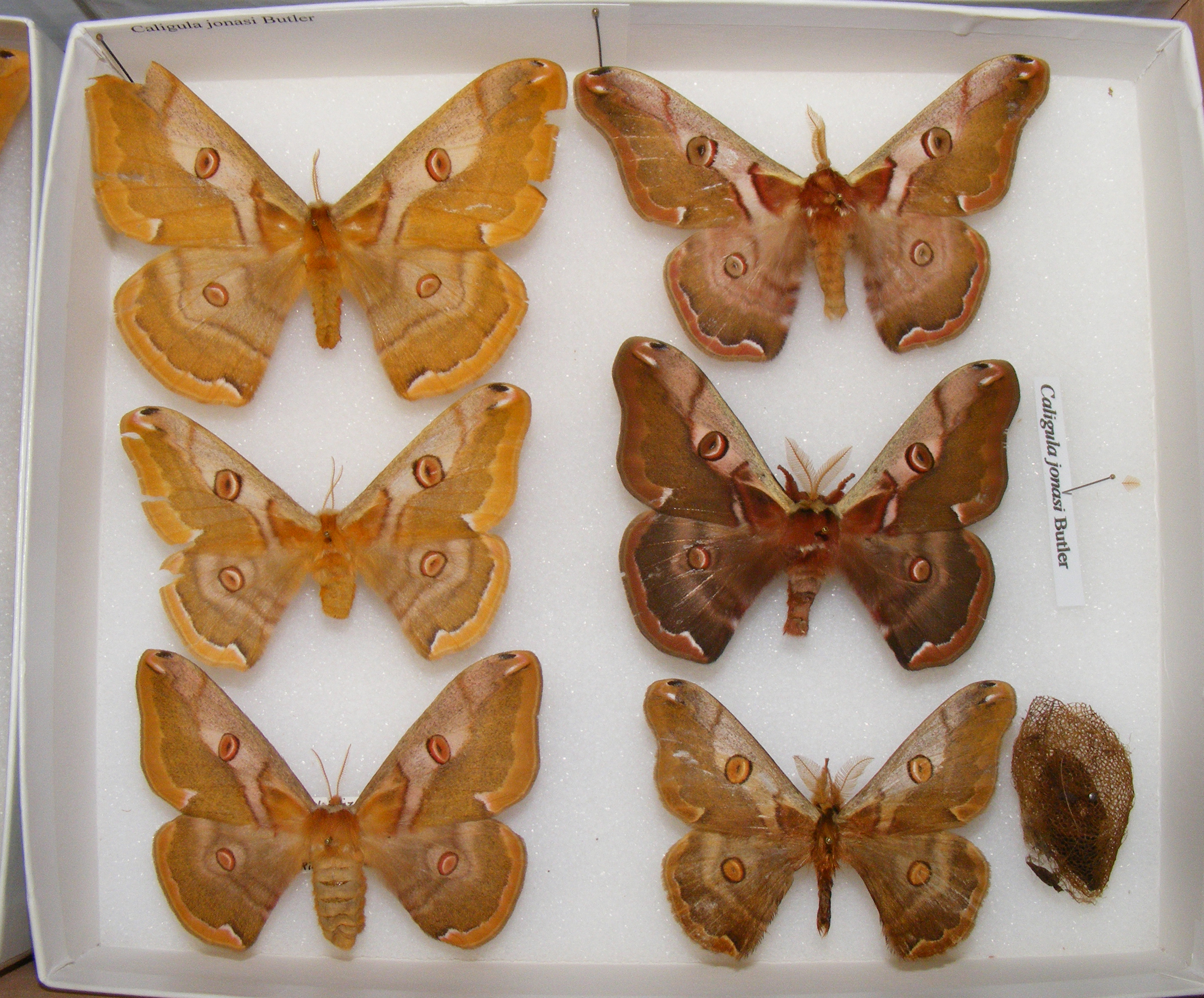 Caligula jonasi adult variation from the Texas A&M University Insect Collection